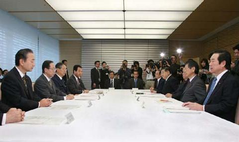 Yasuo Fukuda, Prime Minister, attended a meeting about domestic measures to prevent global warming with Masahiko Kōmura, Minister for Foreign Affairs, Fukushirō Nukaga, Minister of Finance, Masatoshi Wakabayashi, Minister of Agriculture, Forestry and Fisheries, Akira Amari, Minister of Economy, Trade and Industry, Tetsuzō Fuyushiba, Minister of Land, Infrastructure and Transport, Ichirō Kamoshita, Minister of the Environment, and Nobutaka Machimura, Chief Cabinet Secretary, at the Prime Minister's Official Residence in Chiyoda Ward, Tōkyō Metropolis on October 18, 2007.